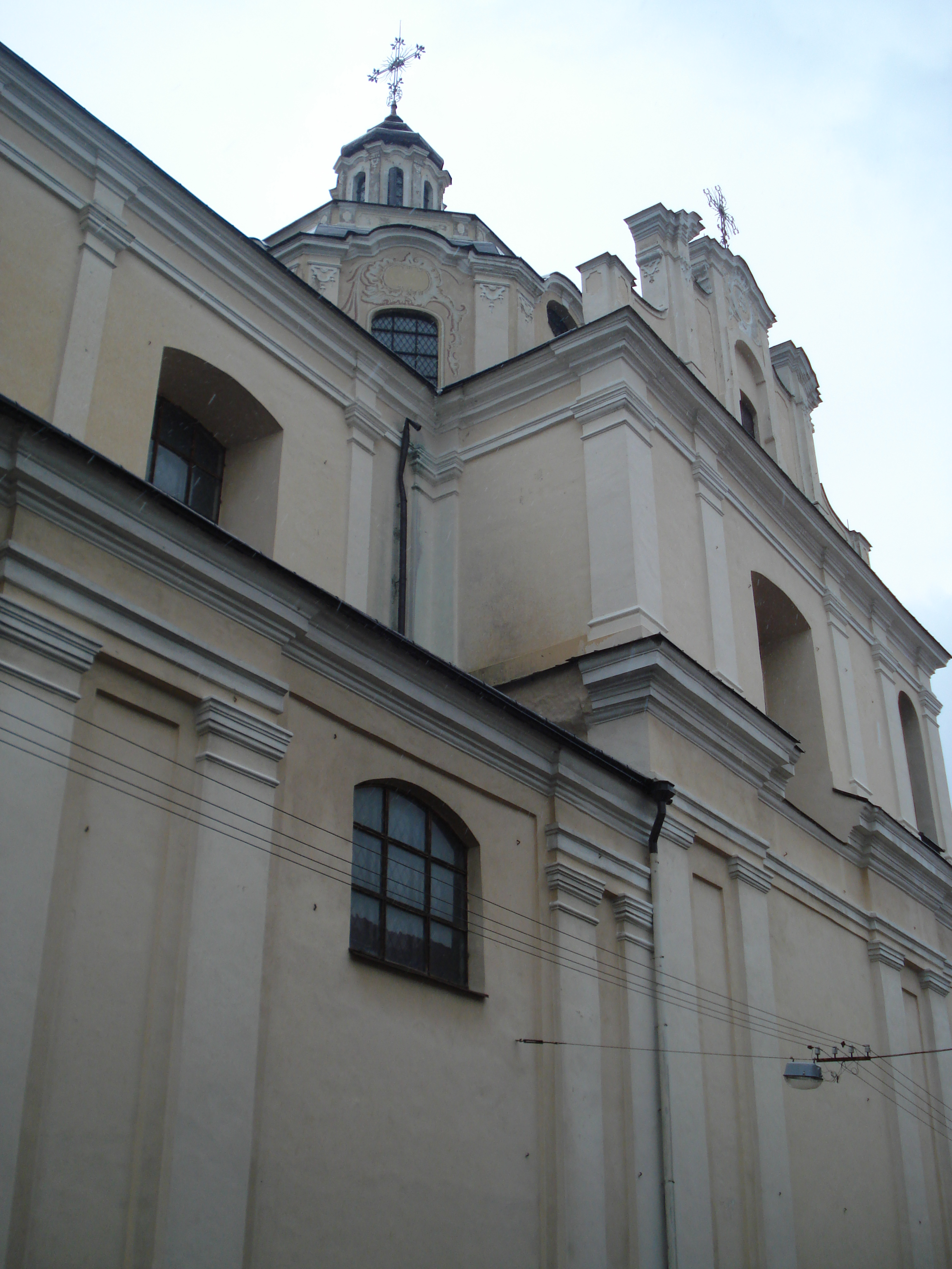 The Dominican Church of the Holy Spirit in Vilnius, Lithuania